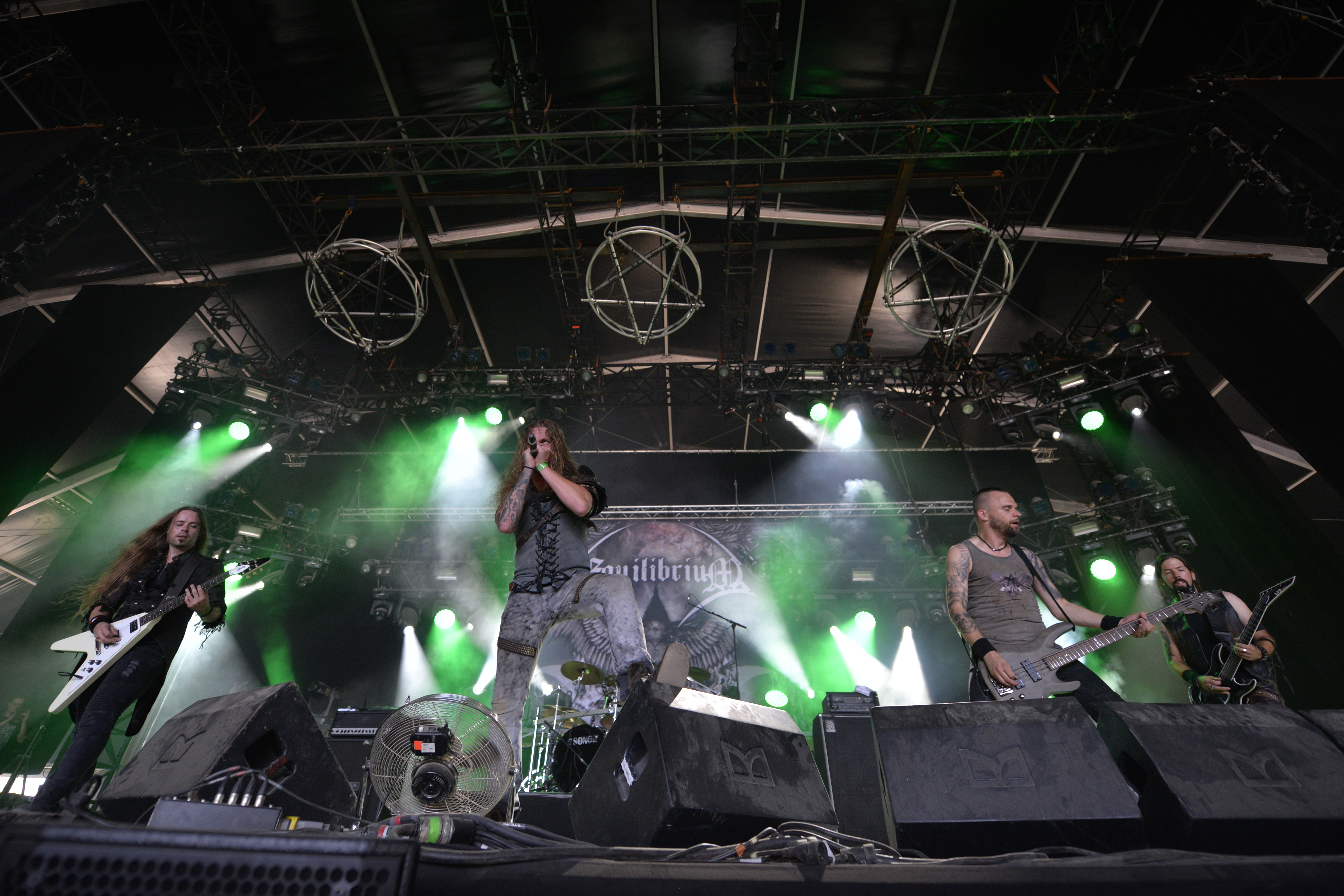 German group Equilibrium at 2017 Hellfest, France.